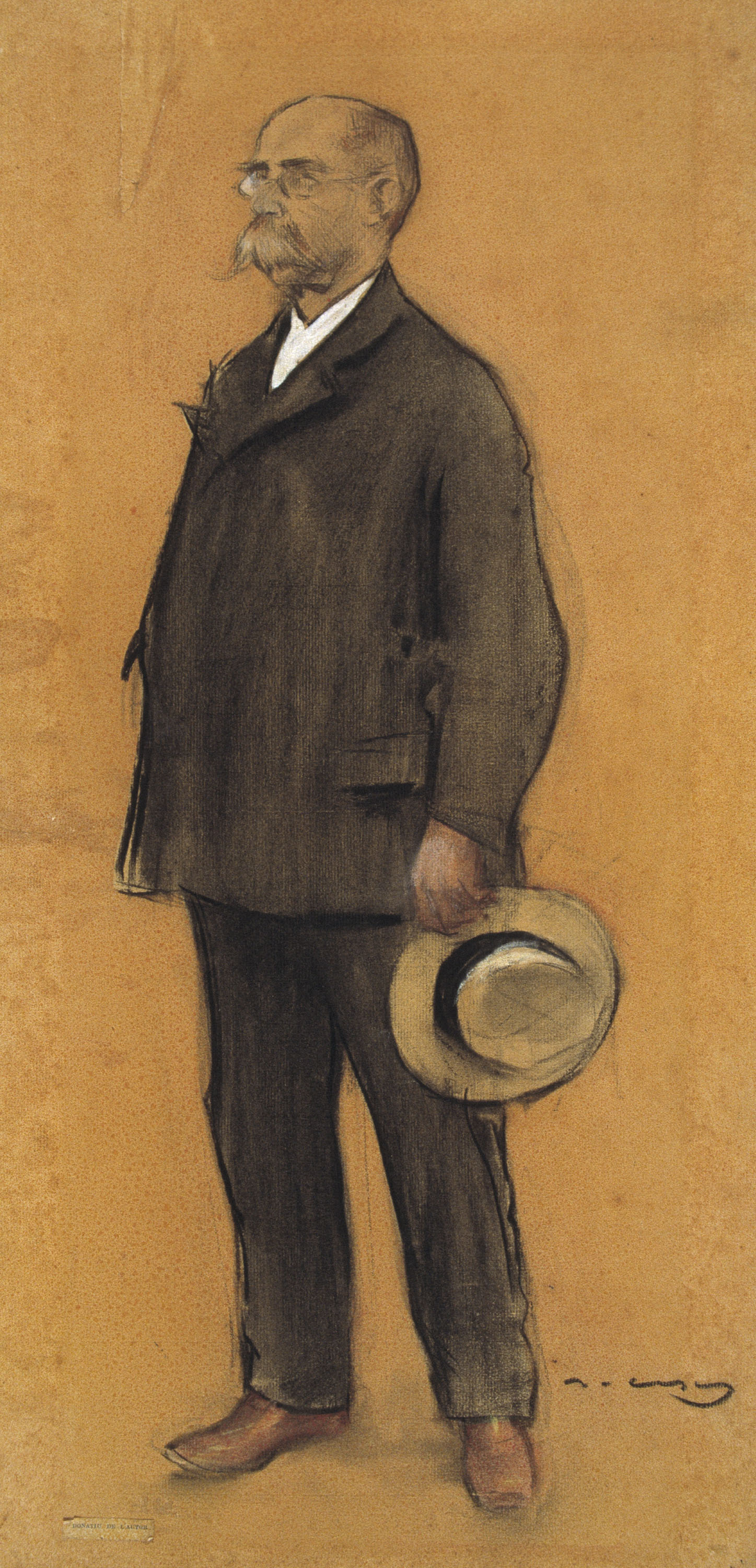 Portrait by Ramon Casas conserved at MNAC in Barcelona. Imagen 020